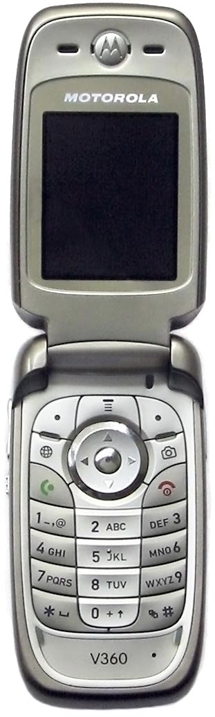 Photo of the Motorola V360.